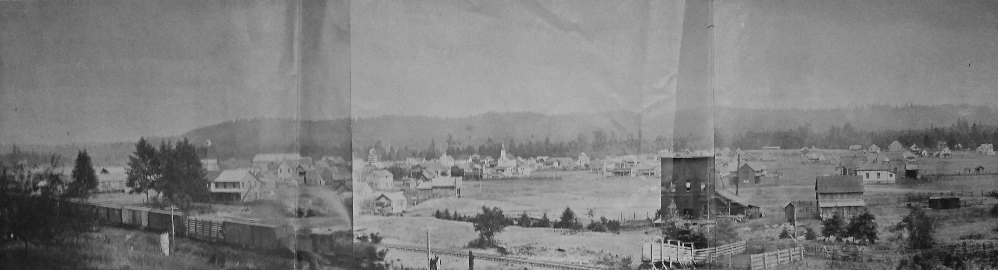 Image labeled, "Oakville, Washington - 1906 - Photo by George Pearson; looking to the south - south-east; windmills used to draw water supply